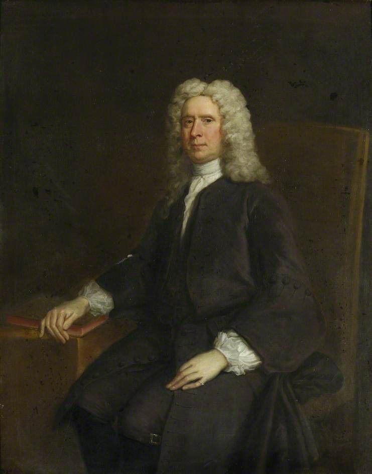 Portrait of George Oxenden (1651–1703), English academic, lawyer and politician.